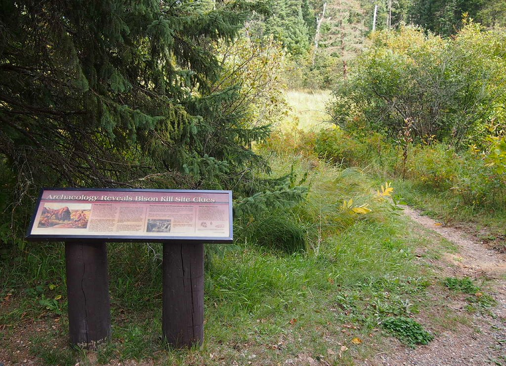 Sign interpreting the Bison Kill Site (an Archaic-era archaeological site located in the clearing in the background), Itasca State Park, Minnesota, USA.